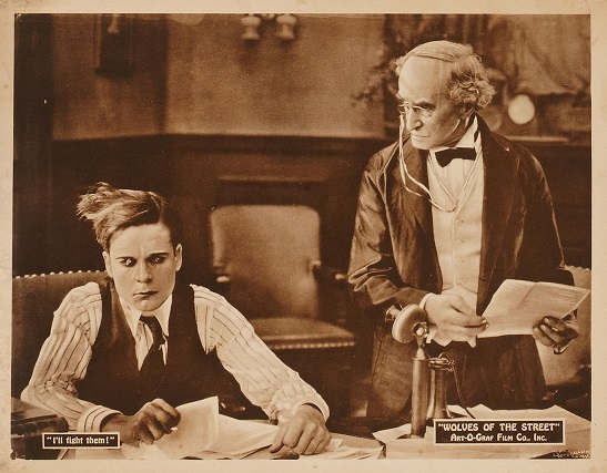 Edmund Cobb in his roll as James Trevlyn in the Art-O-Graf film Wolves of the Street (1920).